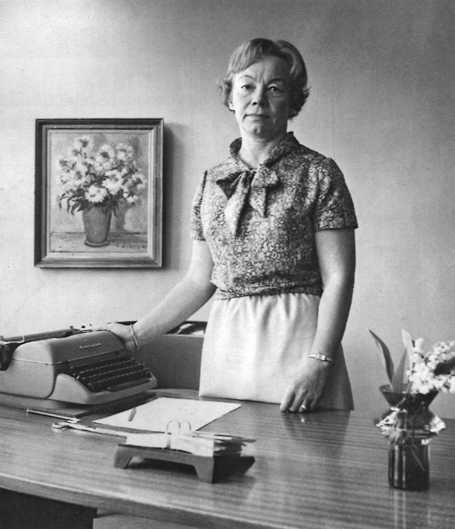 Photograph of the Finnish journalist Eila Jokela (1915–2002).